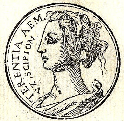 Aemilia Tertia was the wife of Scipio Africanus, Roman general and statesman.